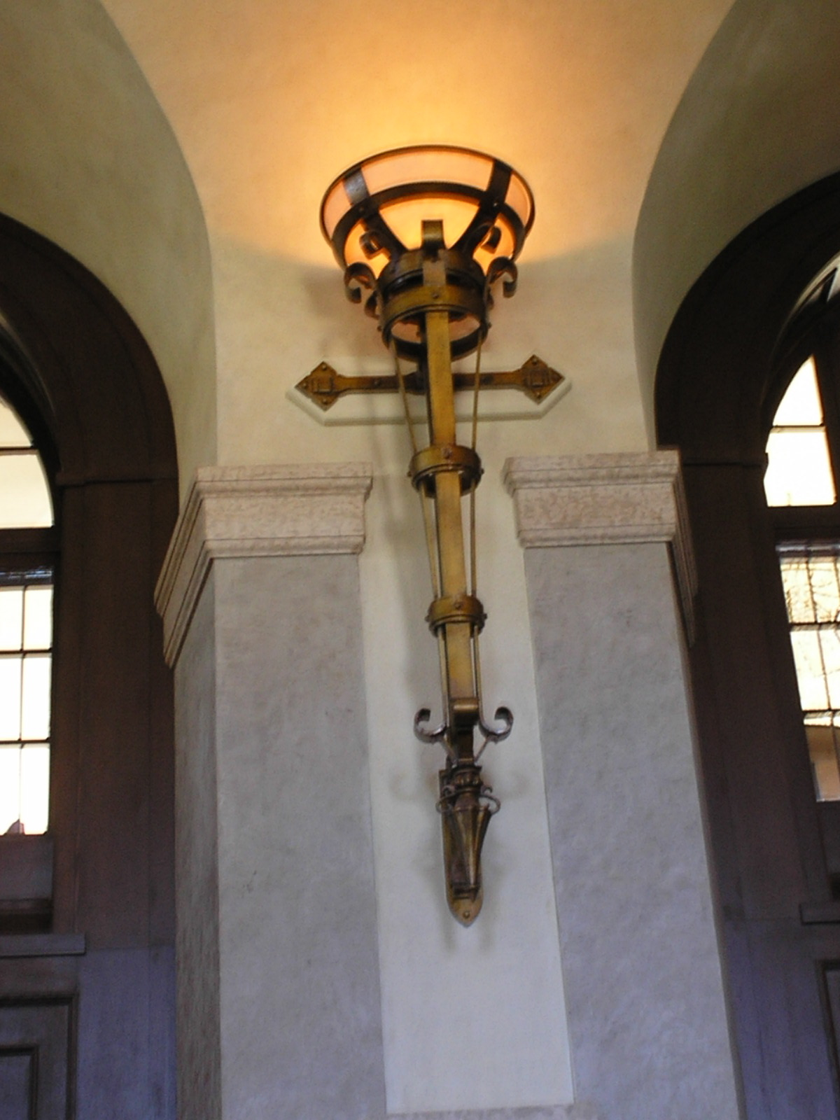 Well, we needed a photo of a sconce. This is a big one, from the Banff Springs Hotel, Banff, AB, Canada.